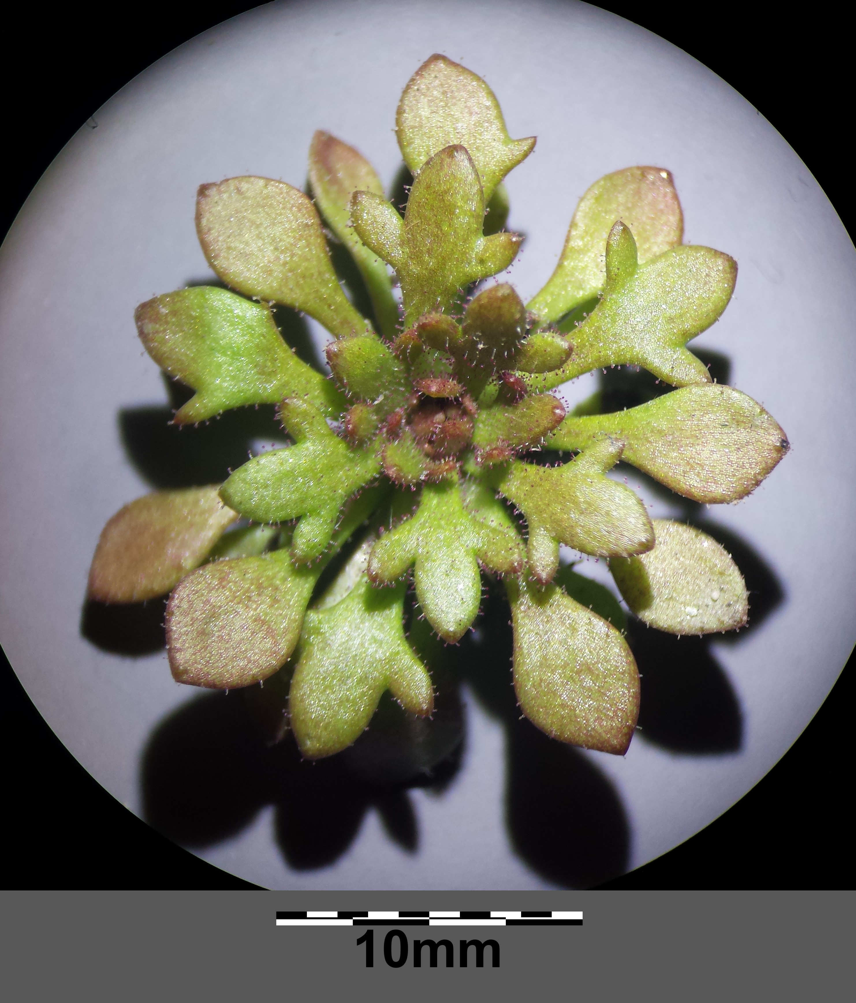 Rosette-leaves Taxonym: Saxifraga tridactylites ss Fischer et al. EfÖLS 2008 ISBN 978-3-85474-187-9 Location: Neue Donau, Vienna-Floridsdorf - ca. 160 m a.s.l. Habitat: dry slope